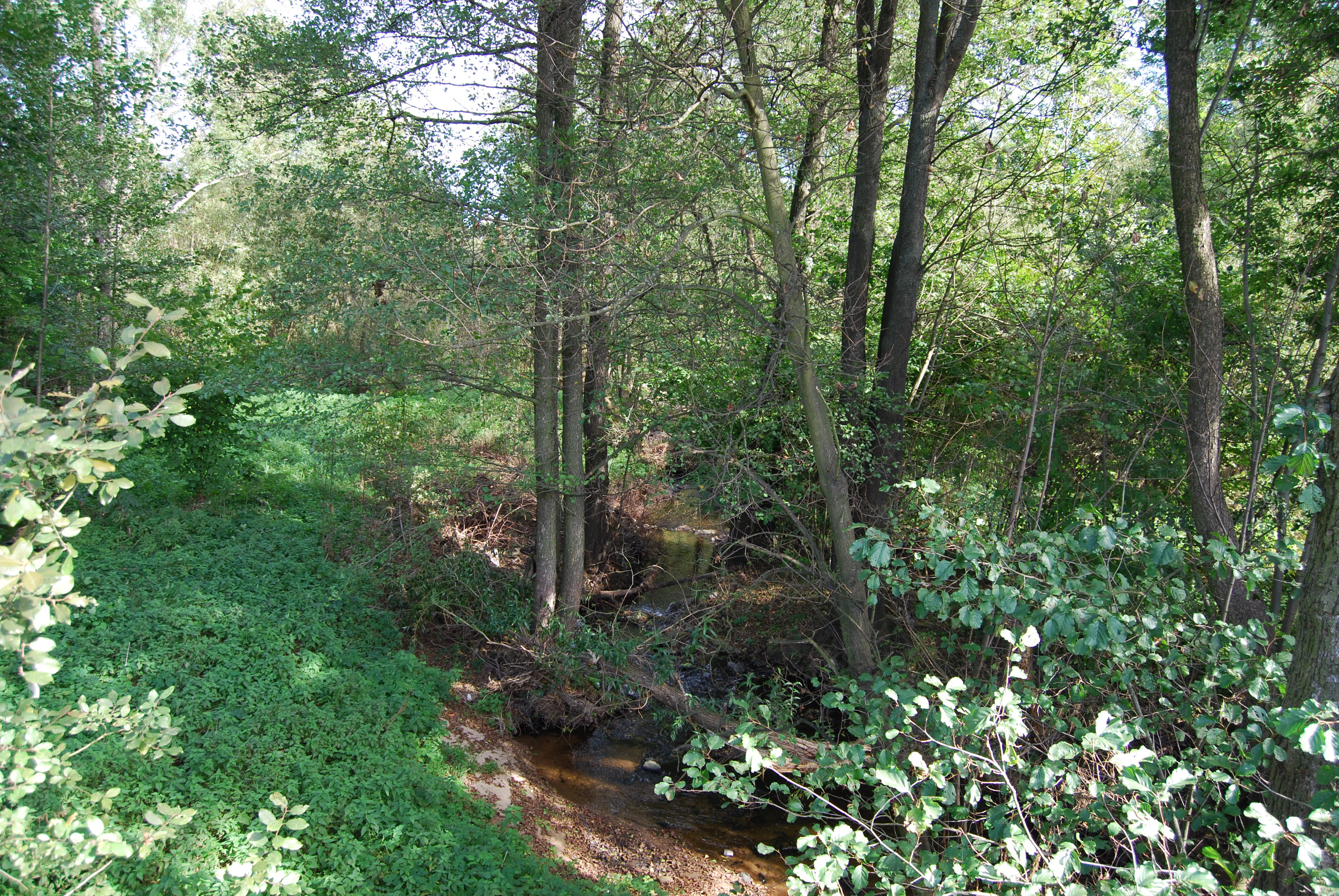 Protect area Hrádeček in Prachatice District, Czech Republic.